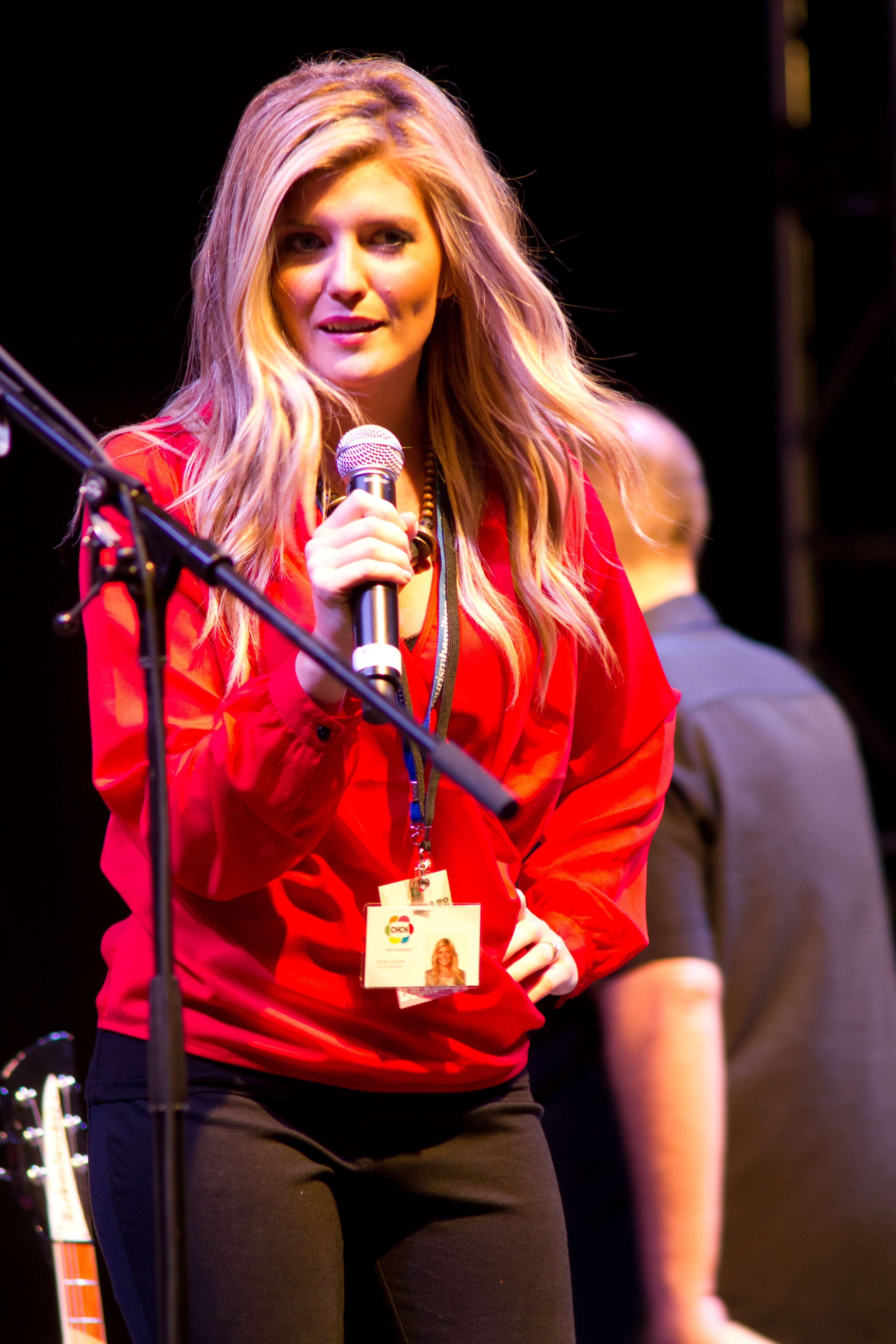 Jaclyn Colville announcing a band at the Festival of Friends in Hamilton